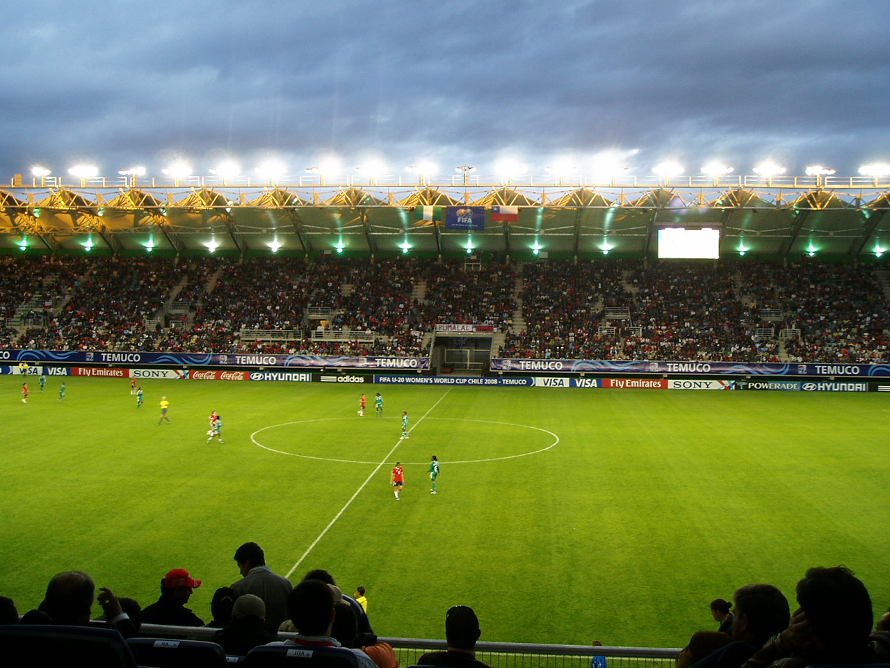 P2170046: 1280x960 300kb